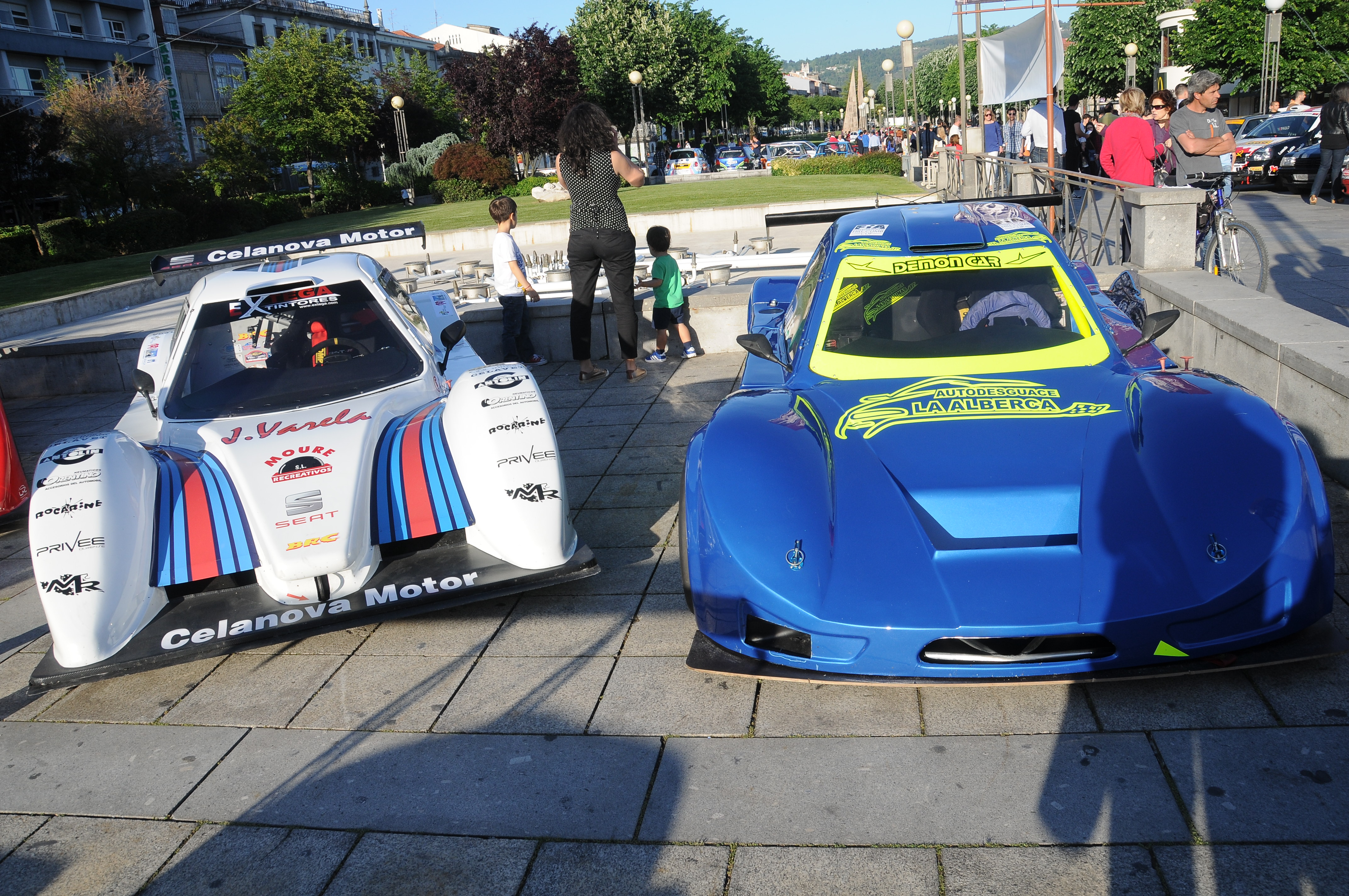 Falperra International Hill Climb 2015, in Braga, Portugal.